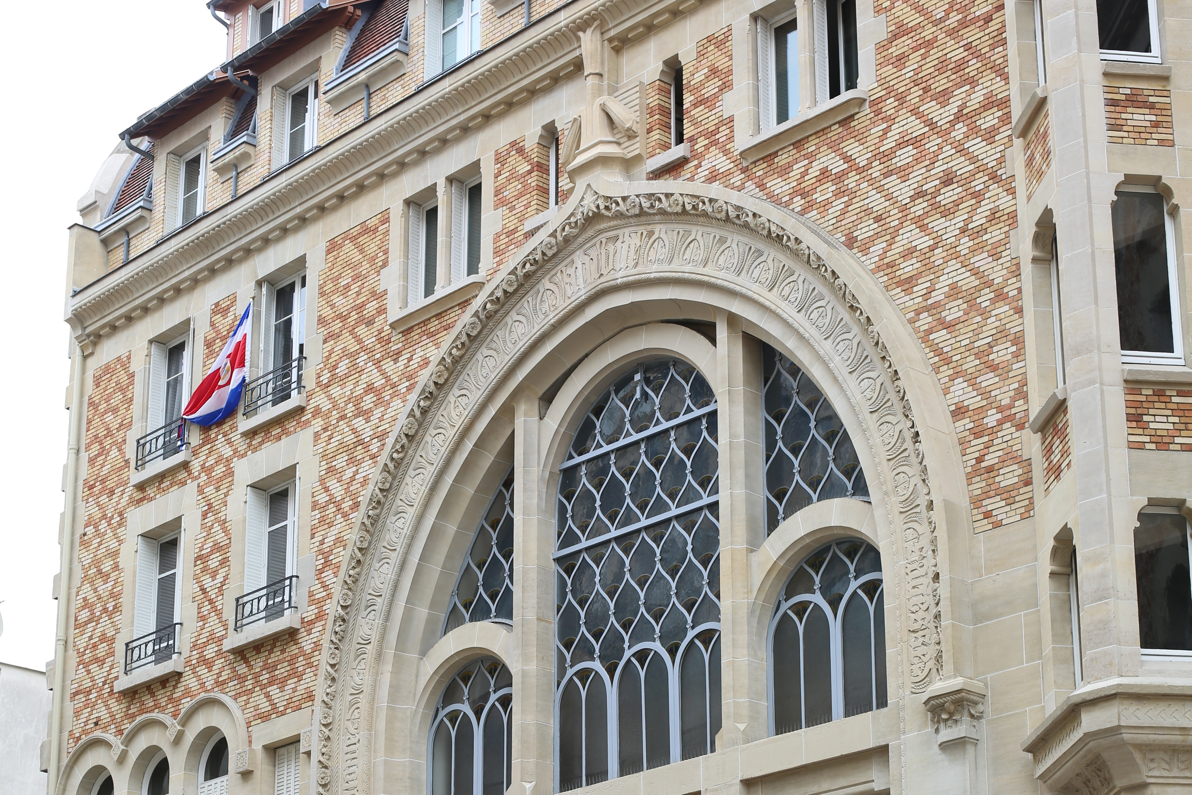 Costa Rican embassy in France, at the 4th floor of the Theosophical Society building, 4 square Rapp, Paris.